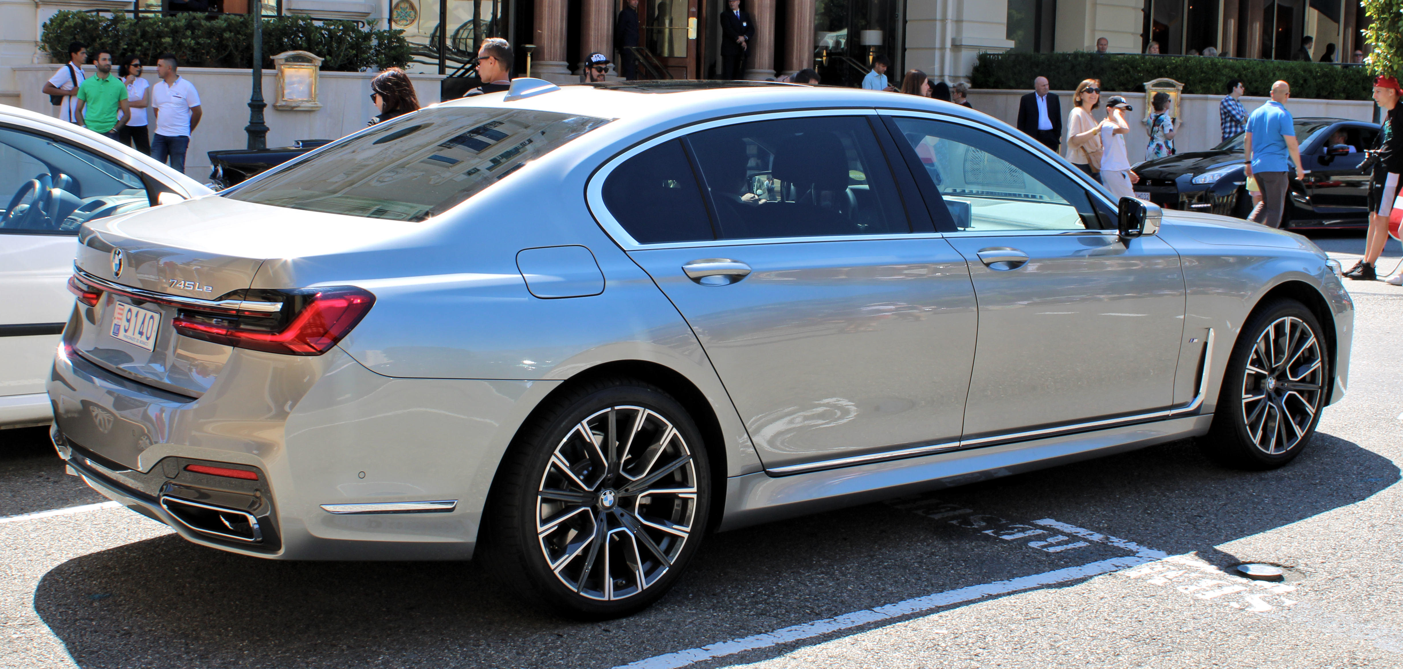 BMW 745Le in Monaco